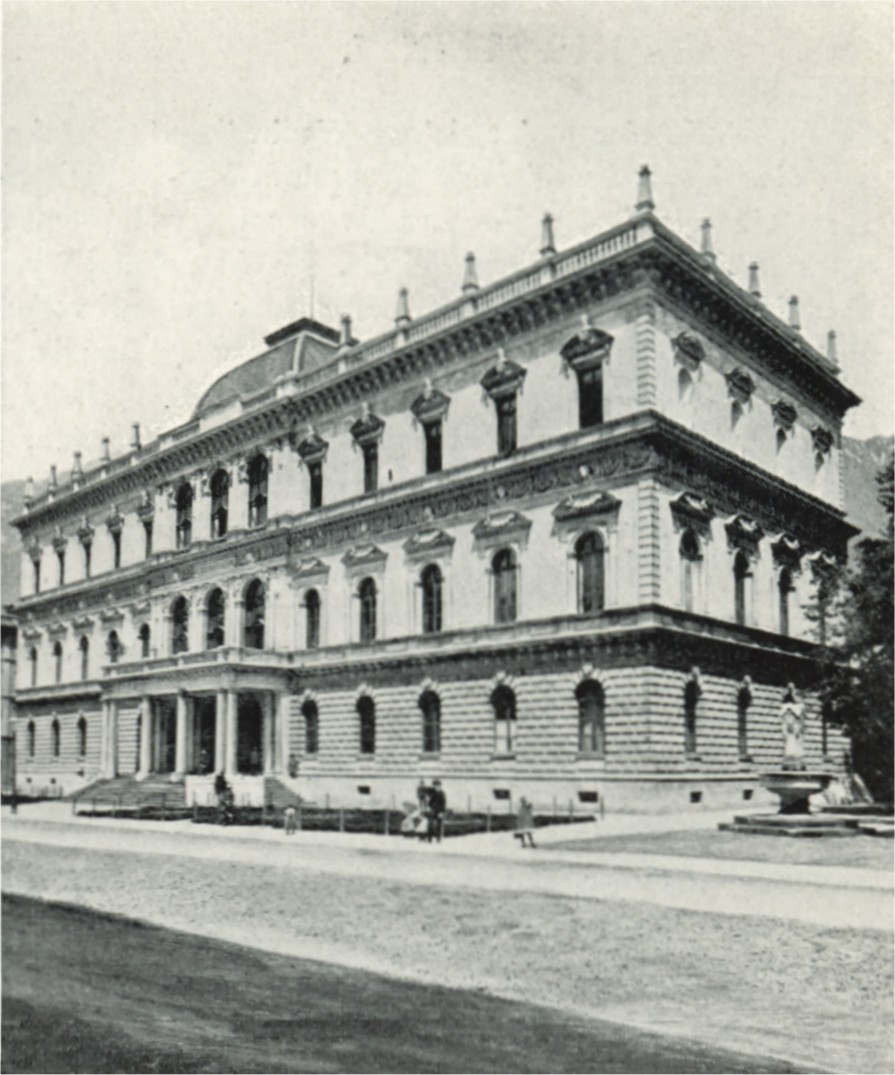 Tiroler Landesmuseum (museum of the province Tyrol) in Innsbruck around 1898